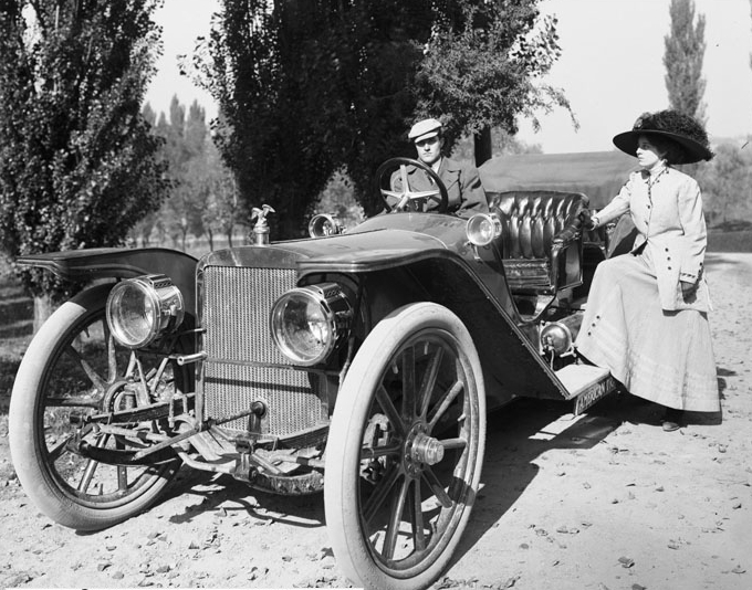 1909 American Traveler car, promotional photo for Dolly Dimples contest, published 1909.